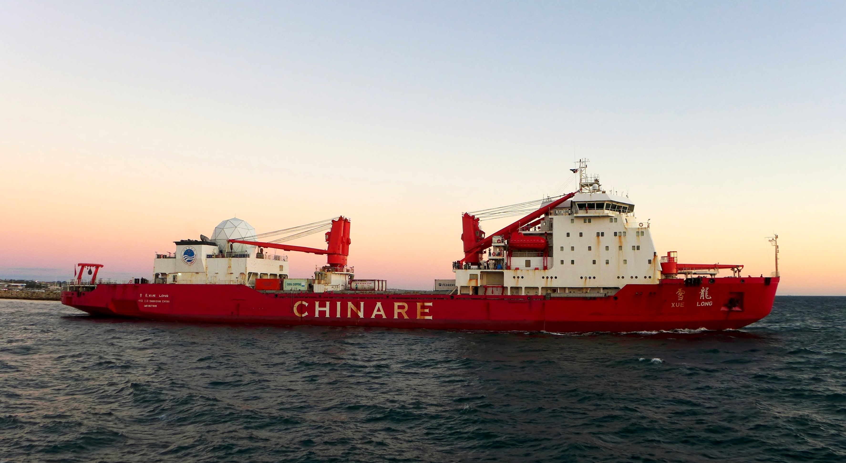 Xue Long, a Chinese icebreaker, departing from the inner harbour of the Port of Fremantle, Western Australia, on her way back to her port of registry, Shanghai, China, after a visit to Antarctica.